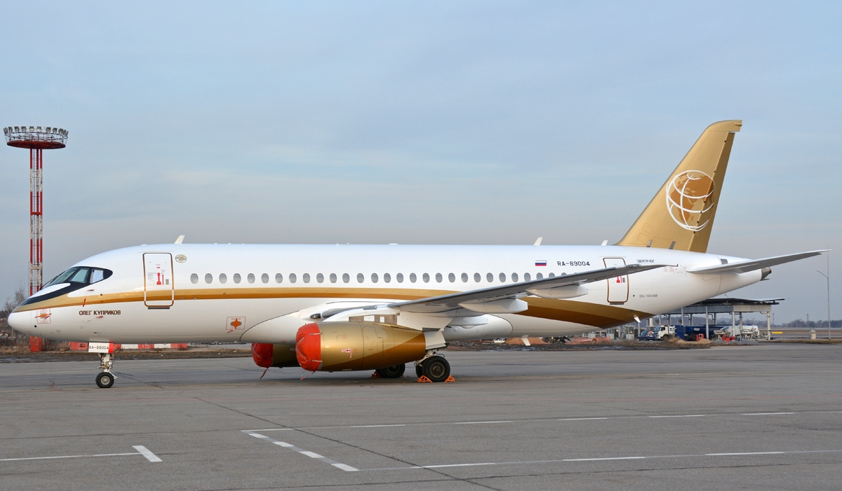 Sukhoi Superjet 100-95 (RA-89004) - Centre-South